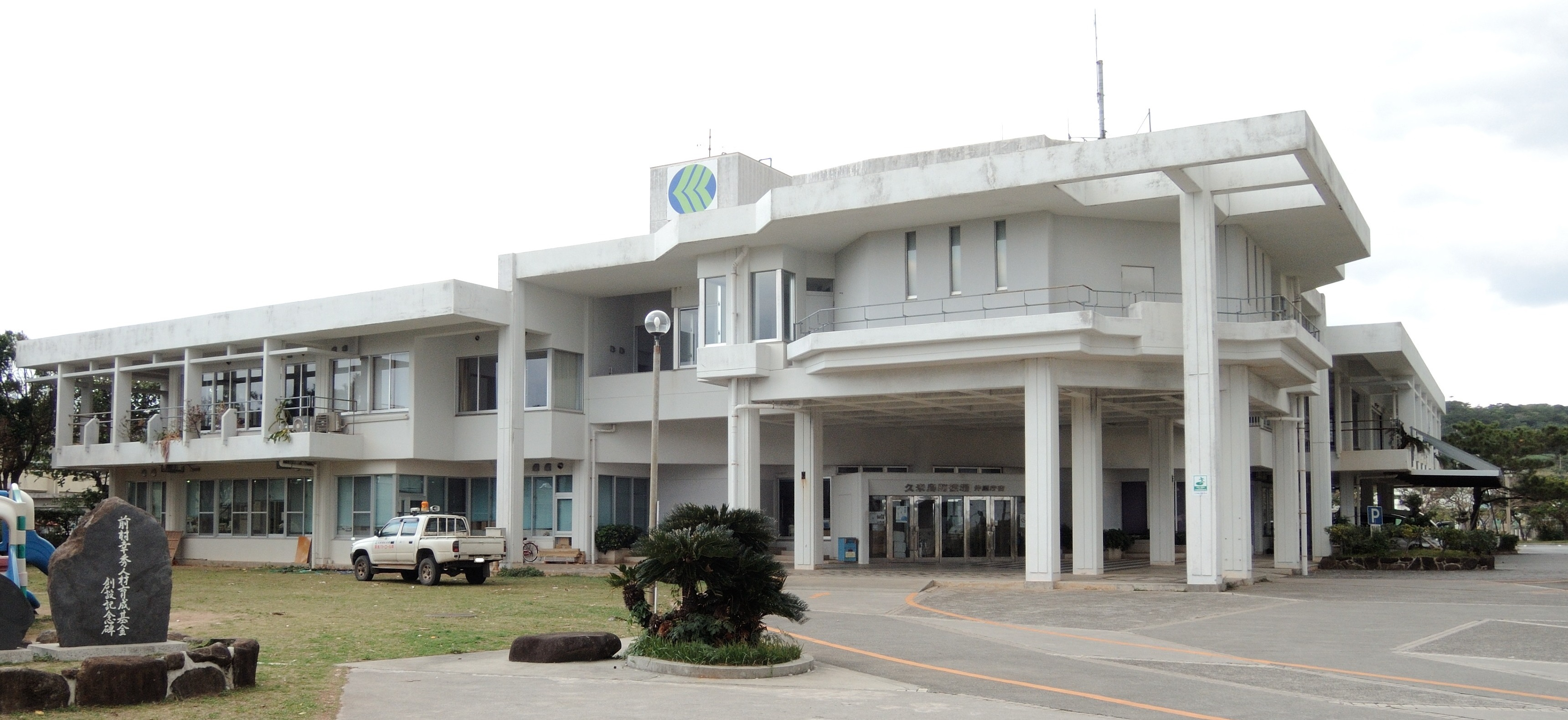 Kumejima town hall,Okinawa prefecture,Japan